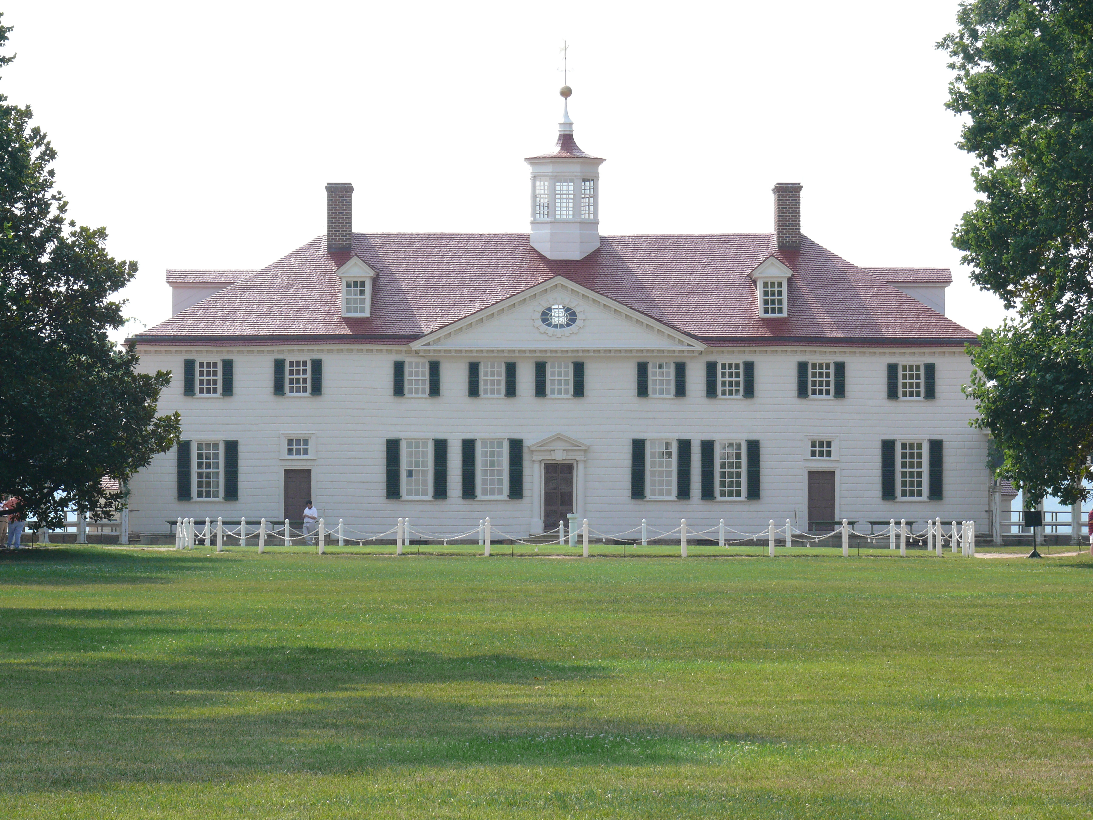 Mount Vernon, located near Alexandria, Virginia, was the plantation home of the first President of the United States, George Washington. The mansion is built of wood in neoclassical Georgian architectural style, and the estate is located on the banks of the Potomac River. Mount Vernon was designated a National Historic Landmark in 1960 and is listed on the National Register of Historic Places. It is owned and maintained in trust by the Mount Vernon Ladies' Association.